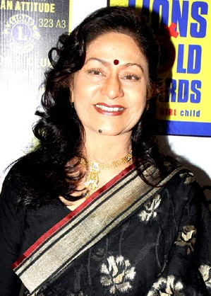 Aruna Irani at 18th Lions Annual Gold Awards.